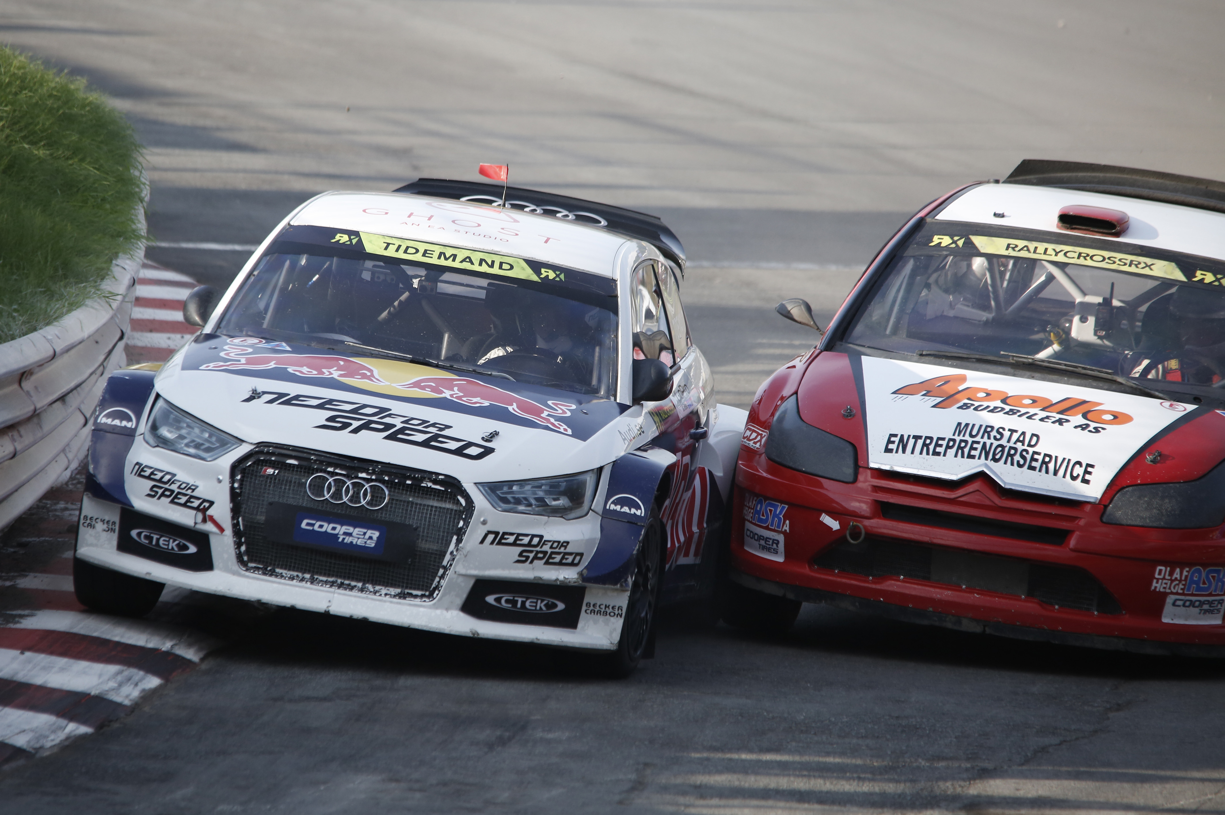 2014 FIA World Rallycross Championship Round 09 Estering, Germany 20th & 21st September 2014 Worldwide Copyright: EKS/McKlein